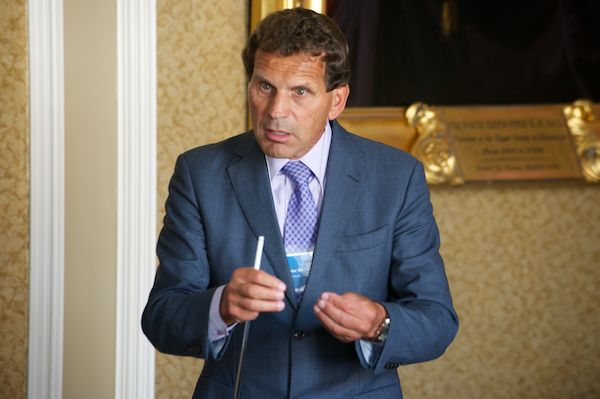 Peter Nijkamp, in 2011.